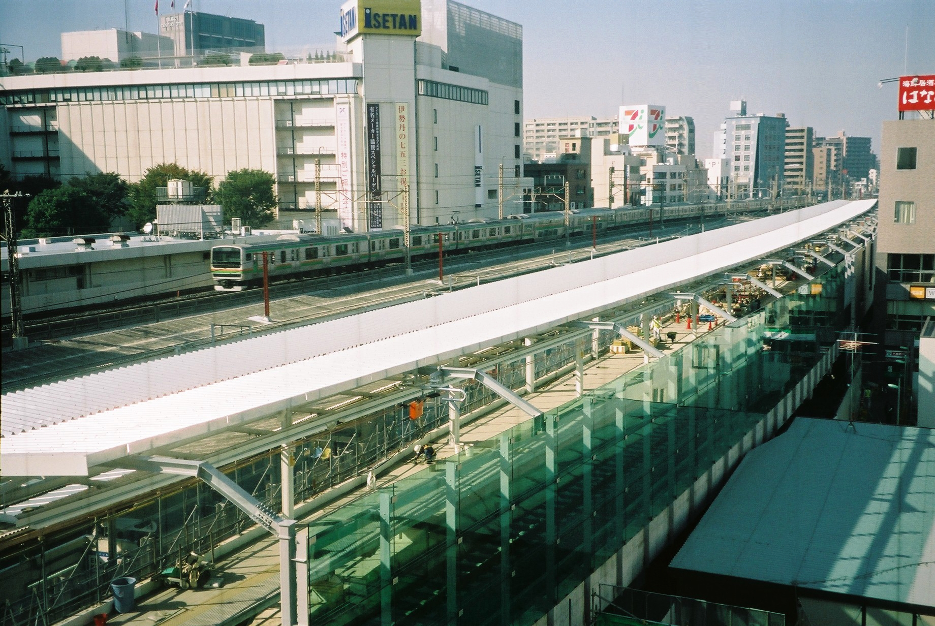 The railway elevation of Urawa Station on 9 November 2006